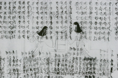 Hakubyo Ise monogatari emaki (白描伊勢物語絵巻). One of the nineteen surviving fragments.